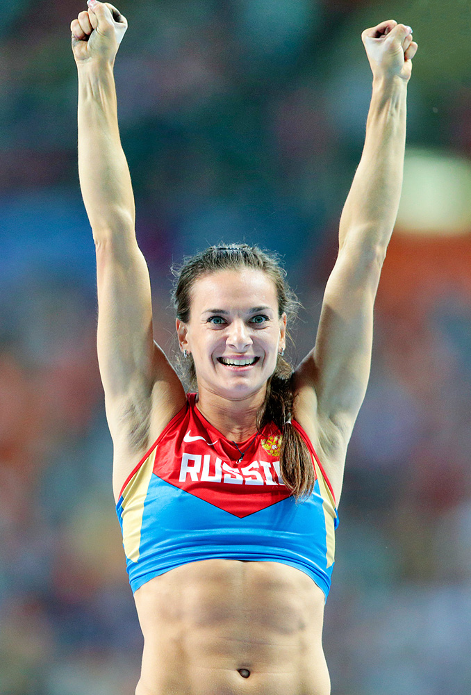 Yelena Isinbayeva on 14th IAAF World Championships in Athletics